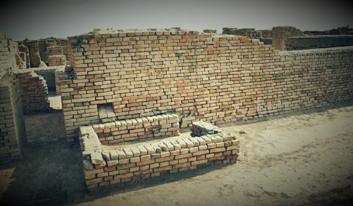 All other remains at Moenjodaro This is a photo of a monument in Pakistan identified as the SD-43